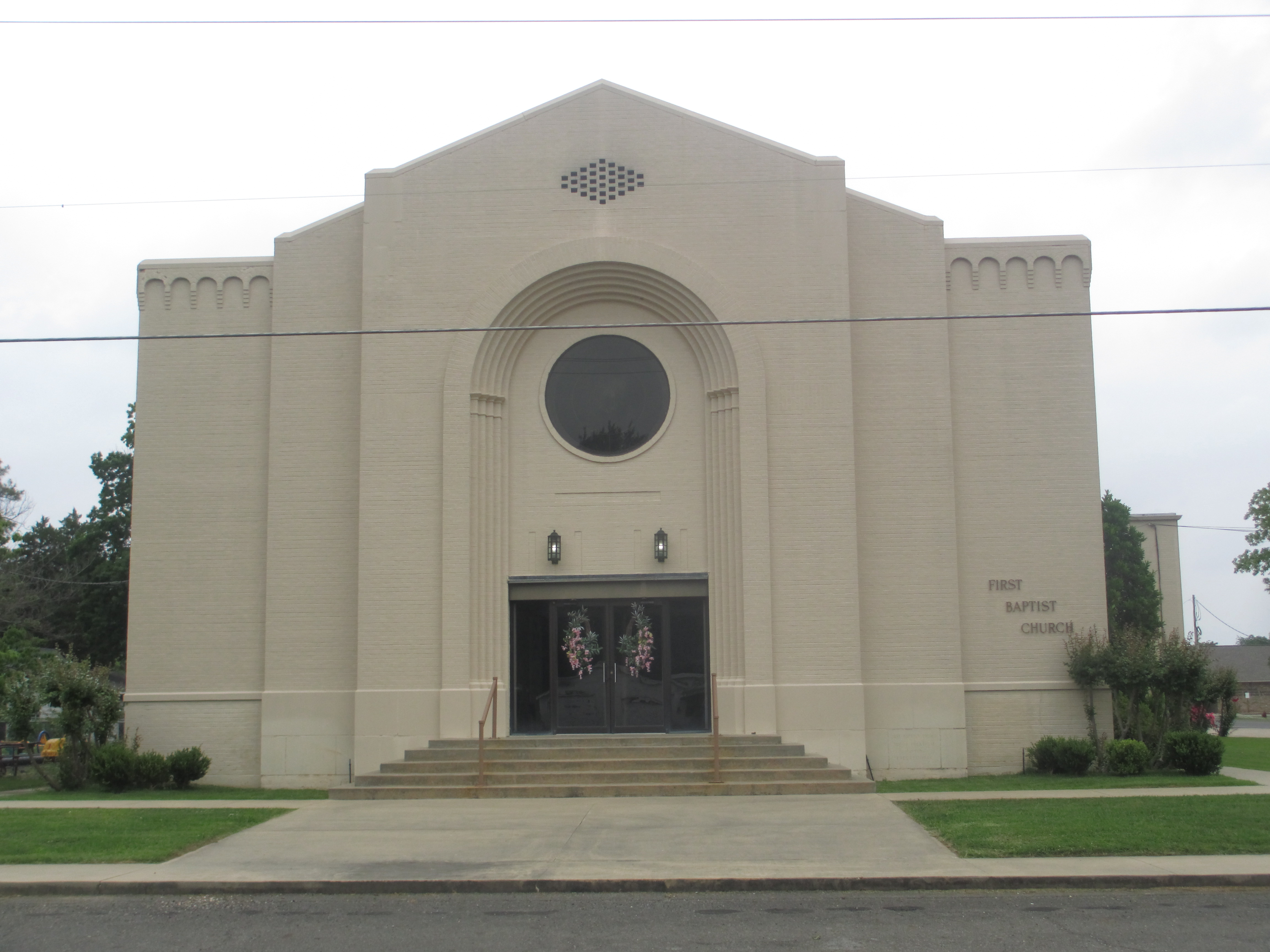 I took photo of First Baptist Church on Main Street in Oak Grove, LA, with Canon camera.